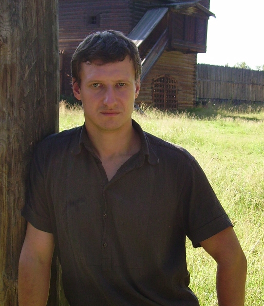 Stanislav Markelov (1974-2009), a Russian human rights lawyer in Talcy - architectural museum near Baikal. Siberian Social Forum, August 2008.